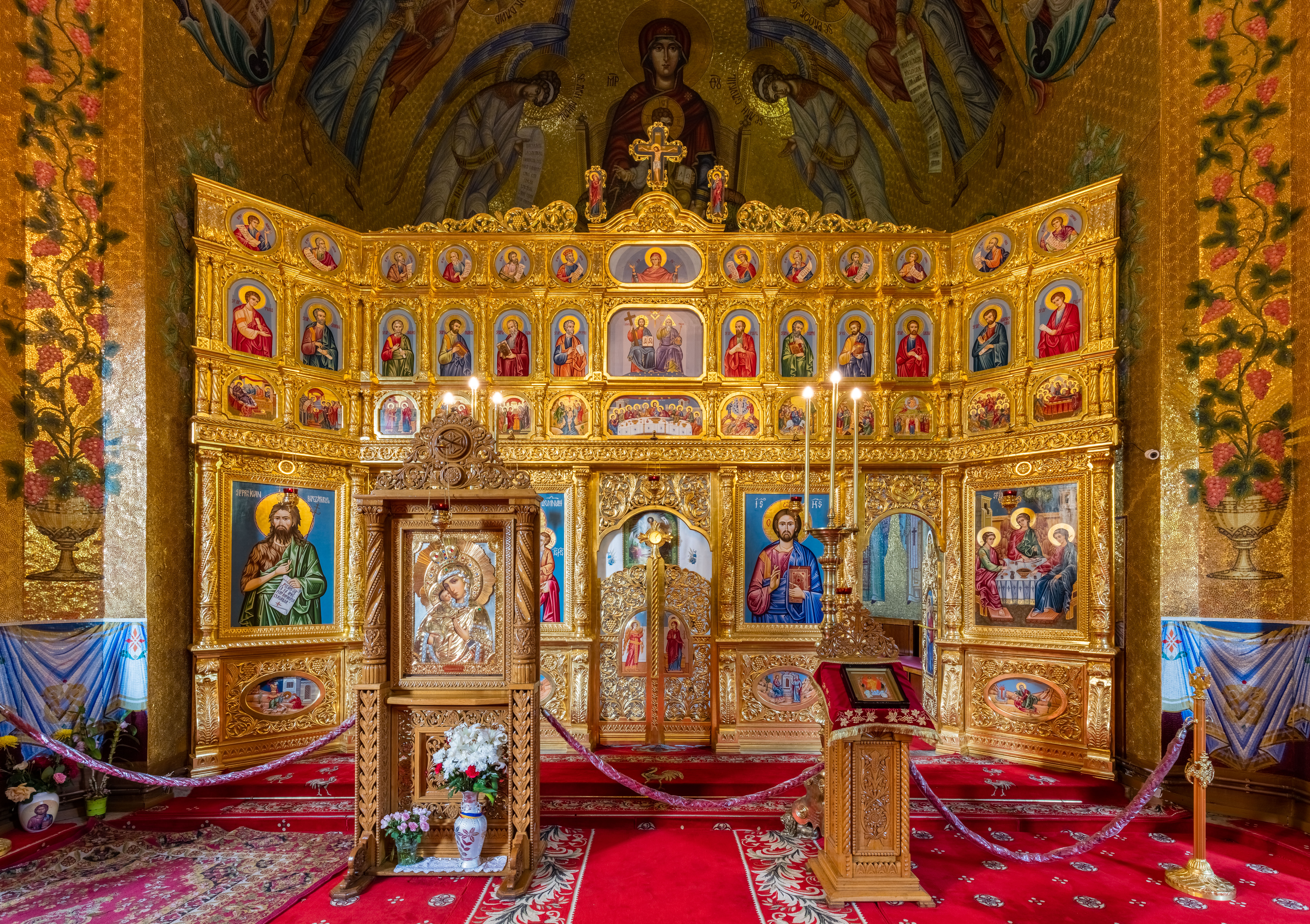 Iconostasis in the church of the Cocoș Monastery, Romania. The monastery, located in a forest clearing 6 kilometres (3.7 mi) from Niculițel, was built between 1883 and 1913 and is dedicated to the Dormition of the Theotokos.